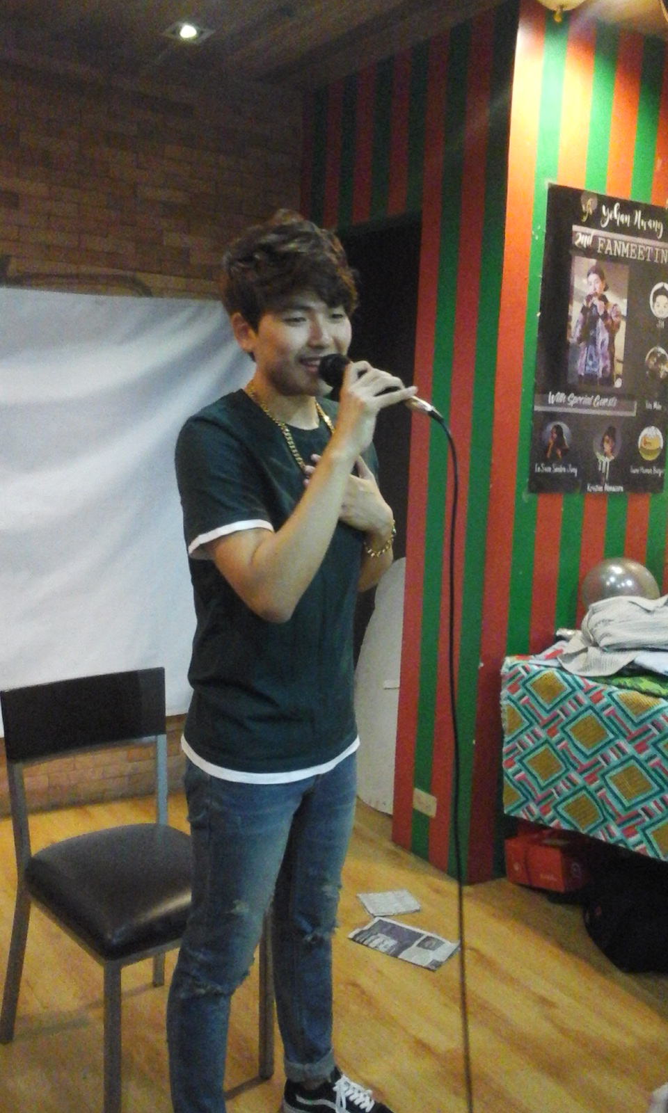 Yohan Hwang at the 2nd Meet and Greet event